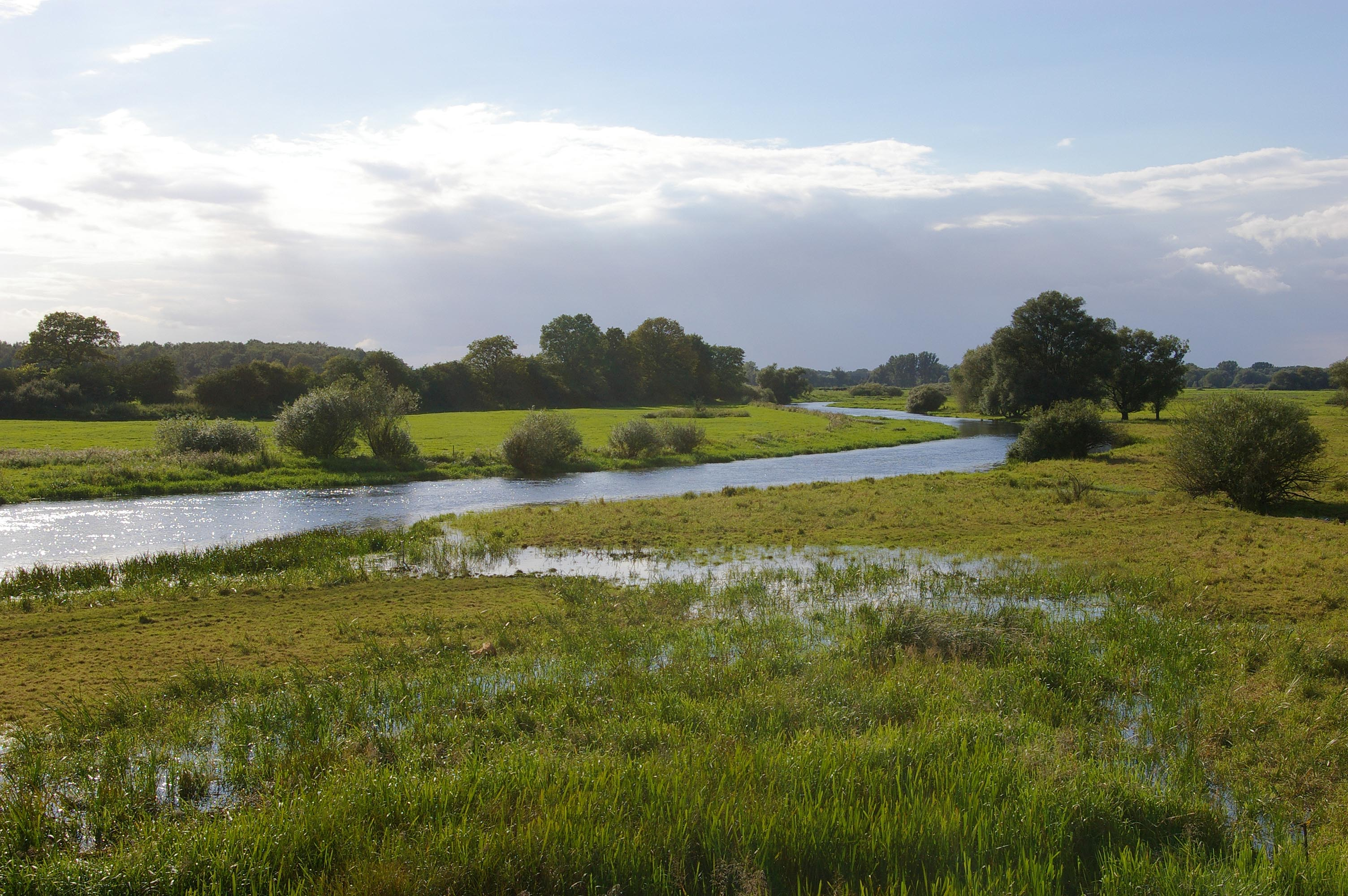 The Aland River with floodplains within the Elbe Glacial Valley in northern Germany.